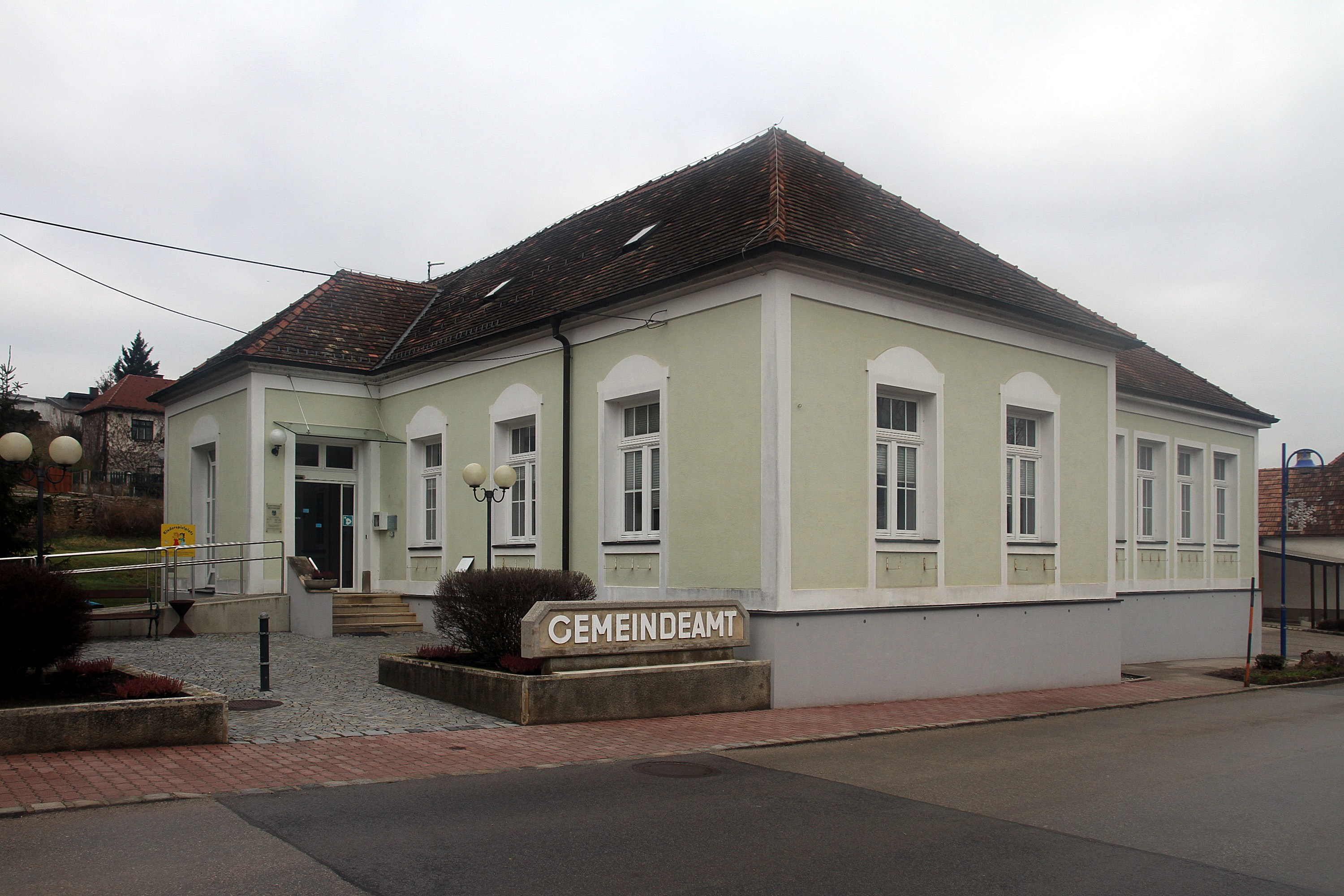 Draßburg - municipal office